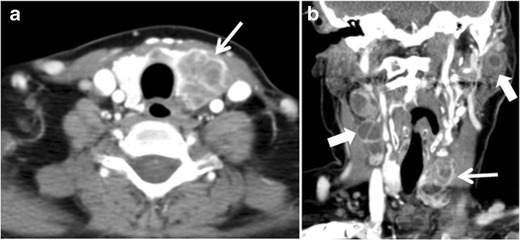 For context, see Computed tomography of the thyroid.